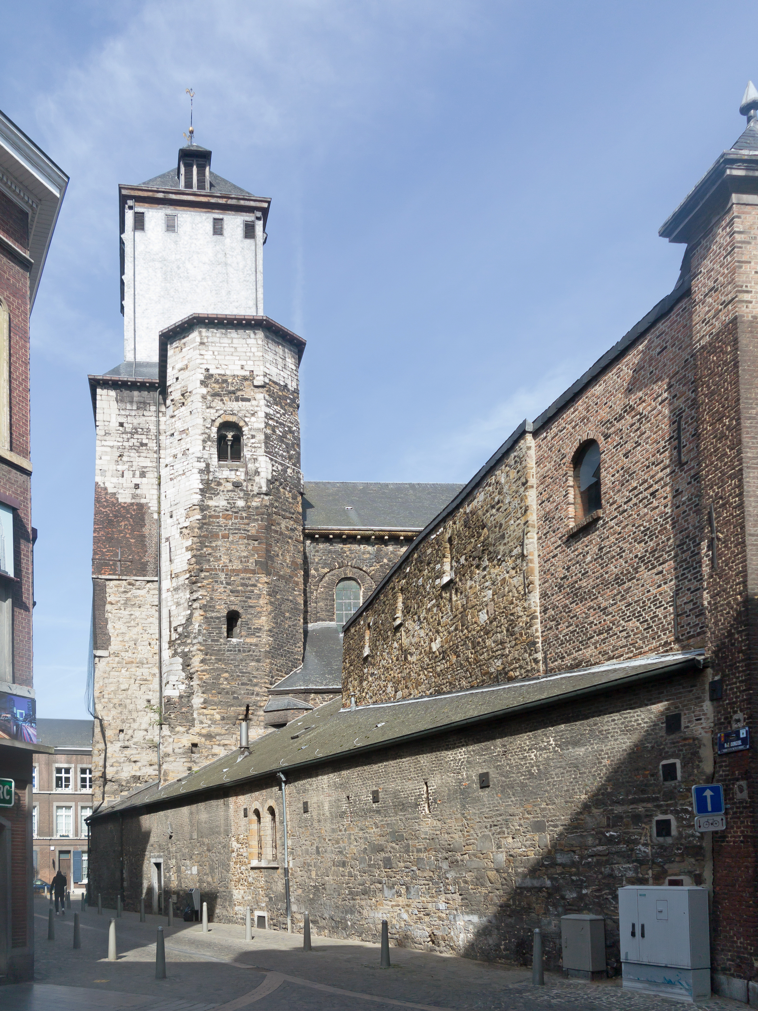 Liège, church: Collégiale Saint-Denis